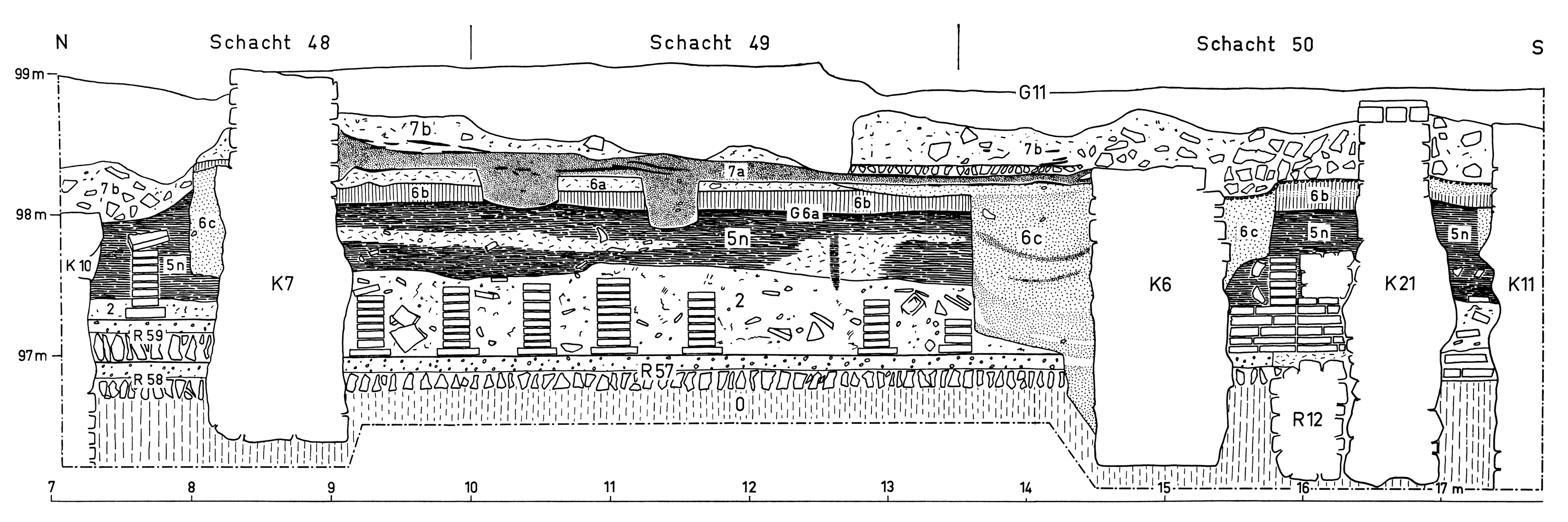 Master profiles of the Old Town excavation Frankfurt a. M. S. 1:40.